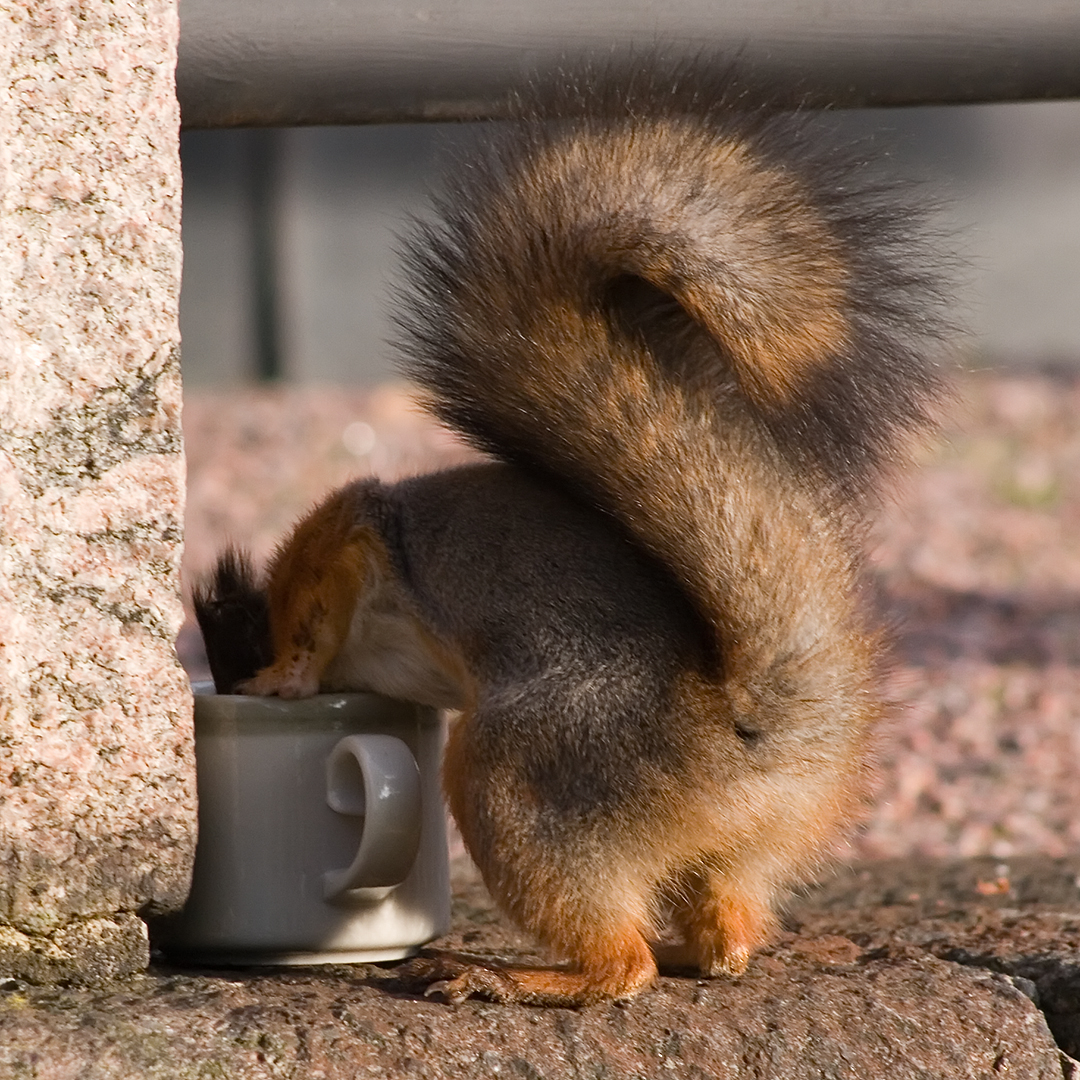 Some days are definitely more fun than others.